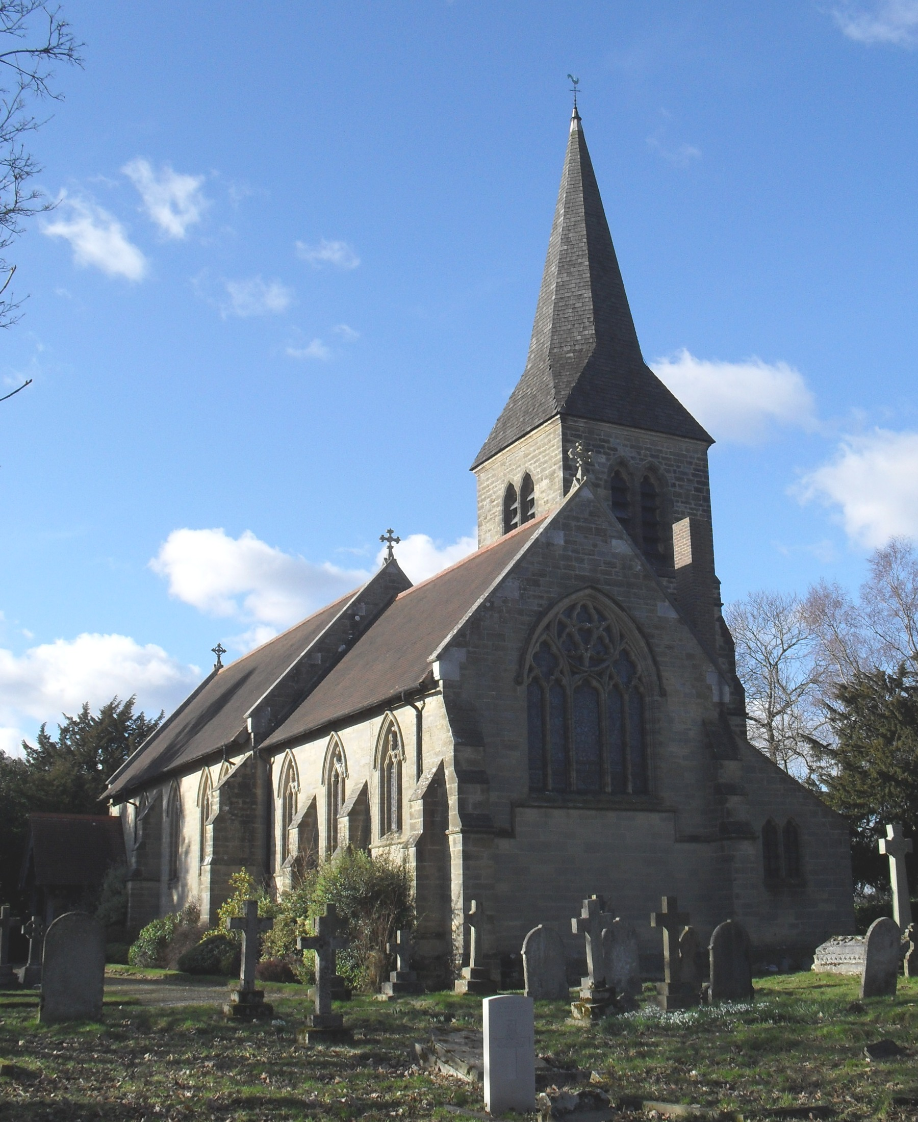 All Saints Church, Hammingden Lane, Highbrook, near West Hoathly, district of Mid Sussex, West Sussex, England. An Anglican church built in 1884 in a rural part of the district. Listed at Grade II by English Heritage (IoE Code 302817)